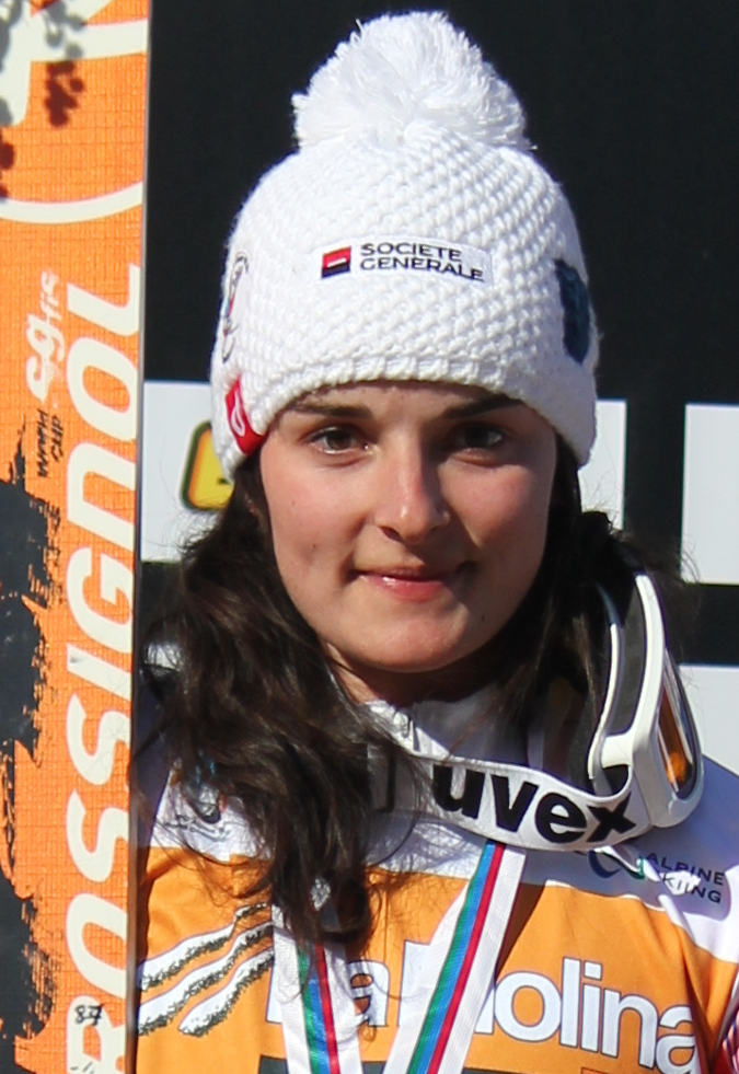 Marie Bochet. 2013 IPC Alpine World Championships award ceremonies.